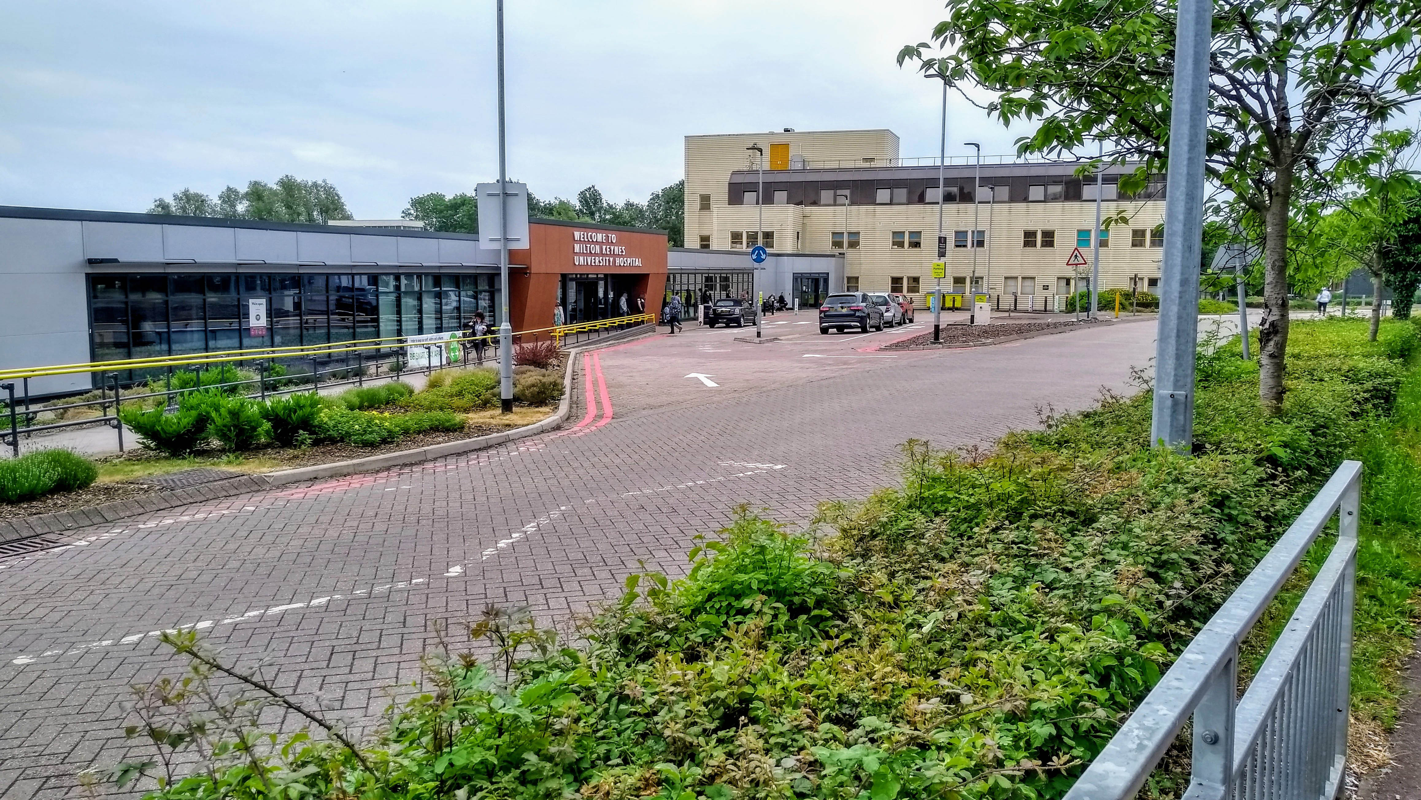 This is the main entrance for visitors to the hospital, opposite the mult-storey car-park and the University of Buckingham Medical School academic centre. (The A&E entrance is to the right, around the corner and then around another corner).